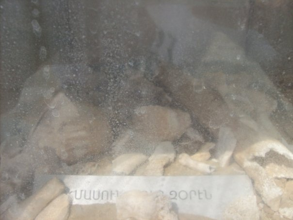 Bones fragments from victims of the Armenian Genocide. It is located in the Armenian Genocide memorial in Nicosia, Cyprus.